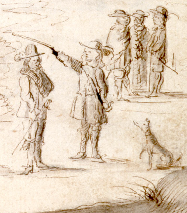 Dutch, Spanish, and Han Colonization in the Seventeenth Century, 1652. Many Dutchmen kept dogs to help in the hunt. Detail from "Landdag Ceremony on Taiwan," drawn by Caspar Schmalkalden.